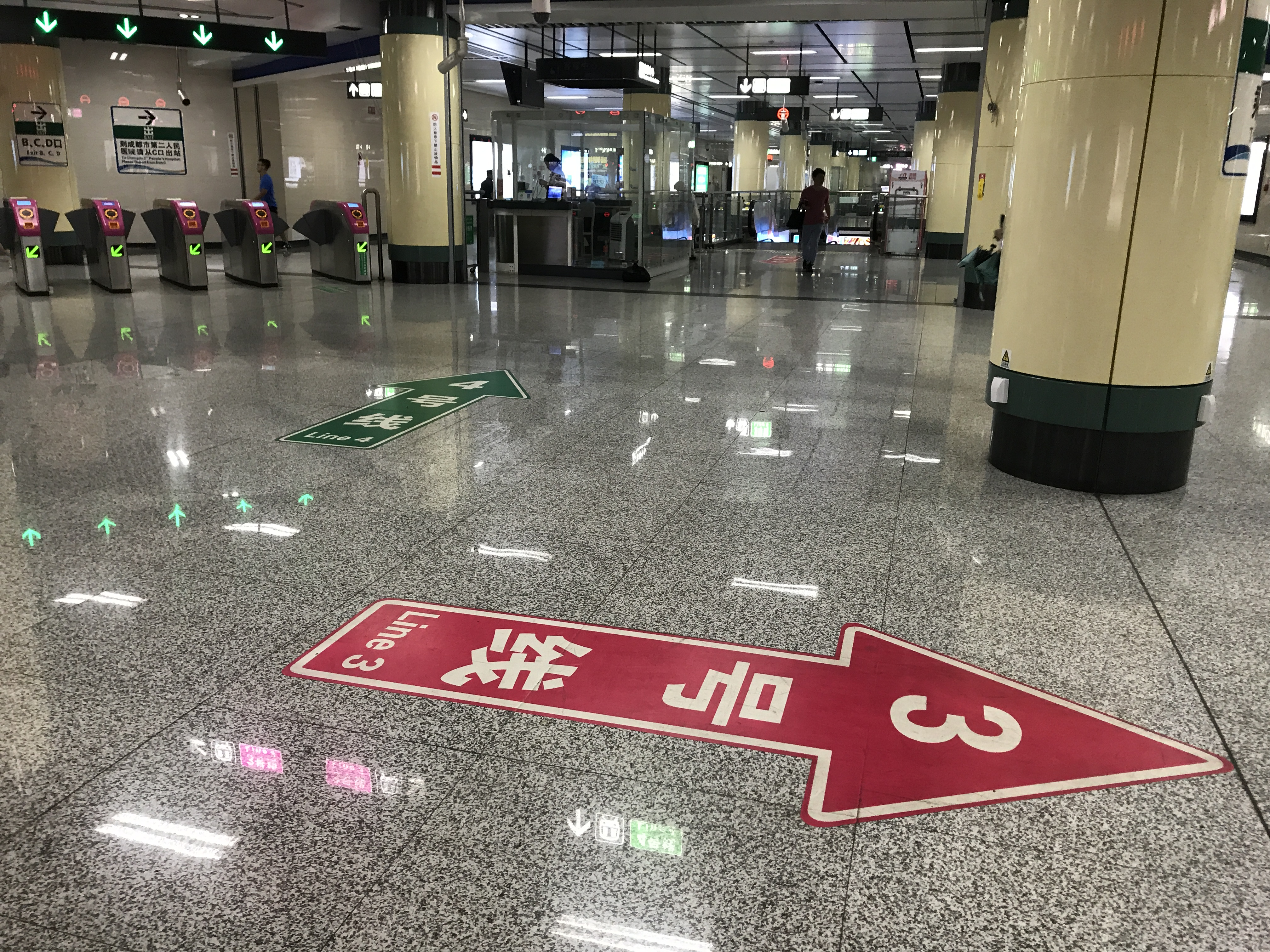 Concourse of Chengdu Second People's Hospital Station, Chengdu Metro